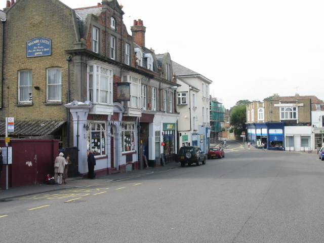 Buildings on the S side of South Street This wide street is used as the bus station and taxi rank.